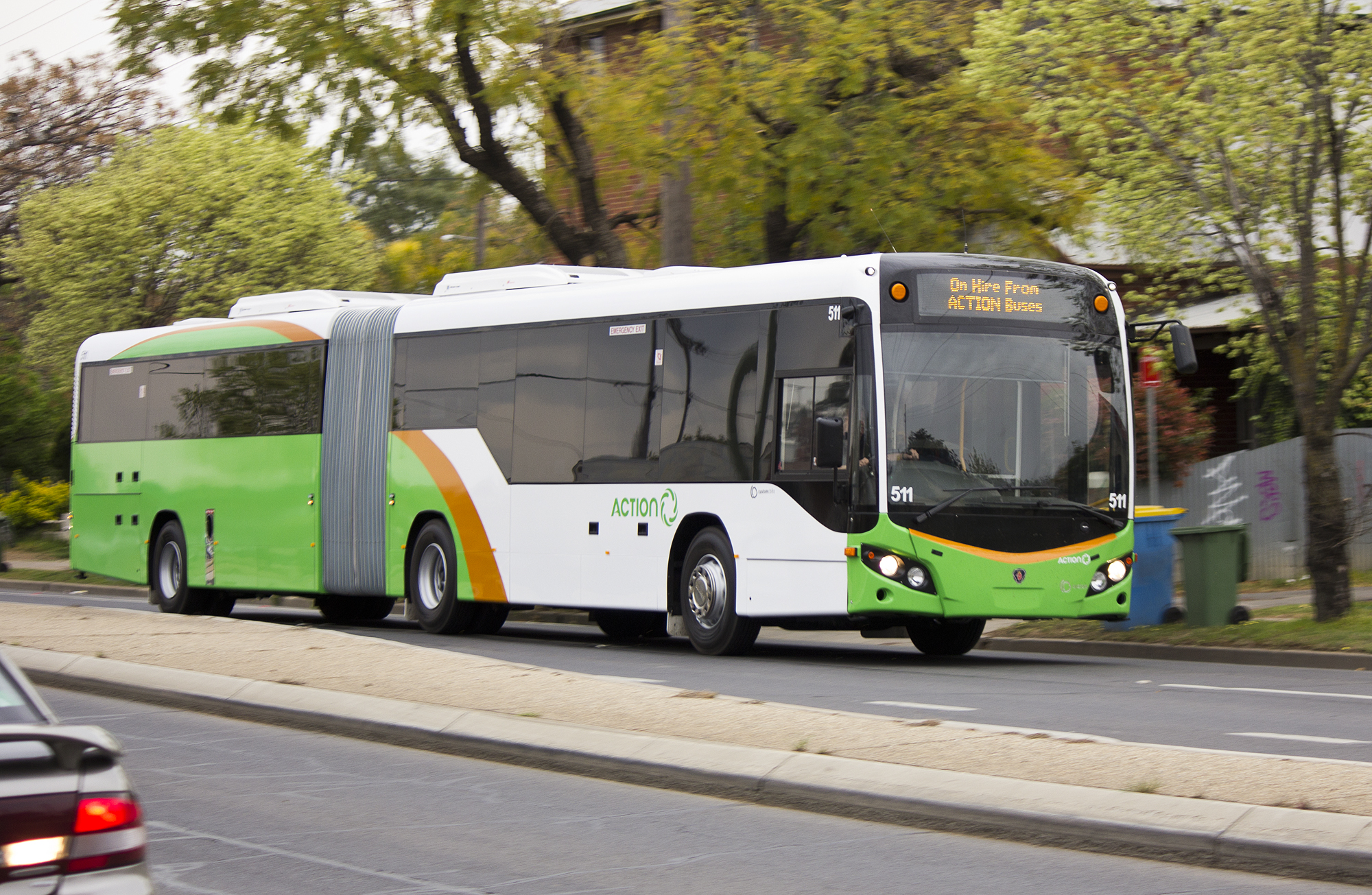 ACTION (BUS 511) - Custom Coaches 'CB80' bodied Scania K360UA 6x2/2 on Edward Street in Wagga Wagga, on route to Canberra to be delivered to ACTION.